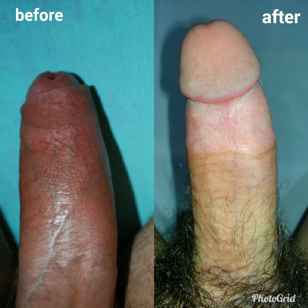 Penis before and after circumcision